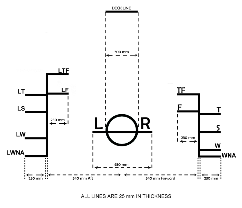 Drawing of load line mark. TF – Tropical Fresh Water F – Fresh Water T – Tropical Seawater S – Summer Temperate Seawater W – Winter Temperate Seawater WNA – Winter North Atlantic Prefix L – Lumber L ⦵ R – Lloyd's Register